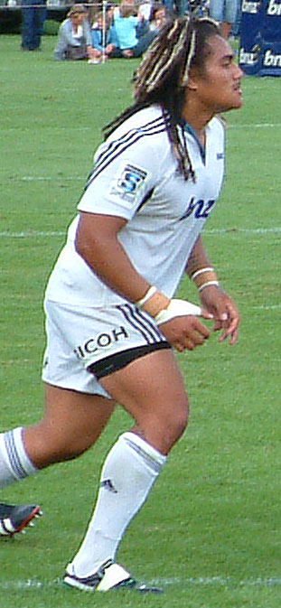 Ofa Tu’ungafasi playing for the Blues vs the Highlanders during a pre season Super 15 game in Queenstown.